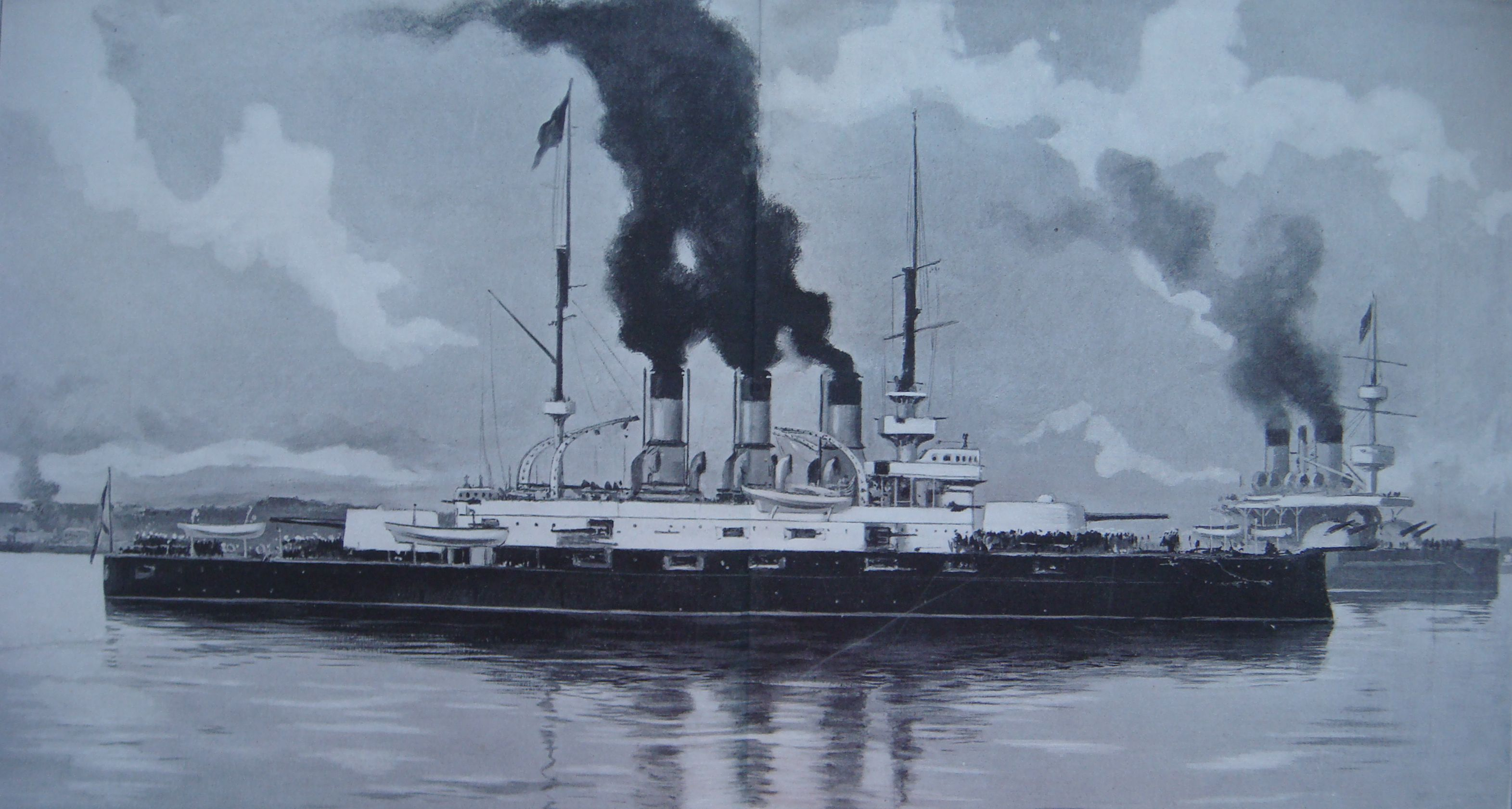 Potemkin mutiny. Odessa port. Artist's drawing of battleships Knyaz Potemkin-Tavrichesky & Georgiy Pobedonosetz (right)